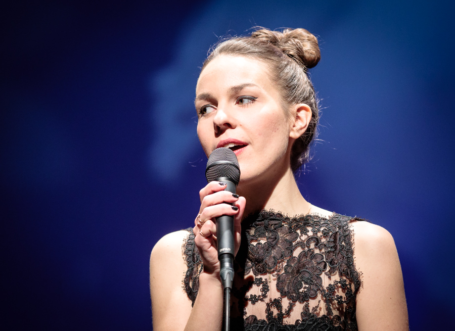 Isabella Lundgren at Monica Zetterlund jubilee concert at Cosmopolite in Soria Moria. The concert celebrated the late Monica Zetterlund and took place on 29. October 2017 Lineup: Rigmor Gustafsson (vocal) Isabella Lundgren (vocal), Mats Hålling (conductor), Unknown (drums), Unknown (double bass) Unknown (piano) Det Norske Blåseensemble